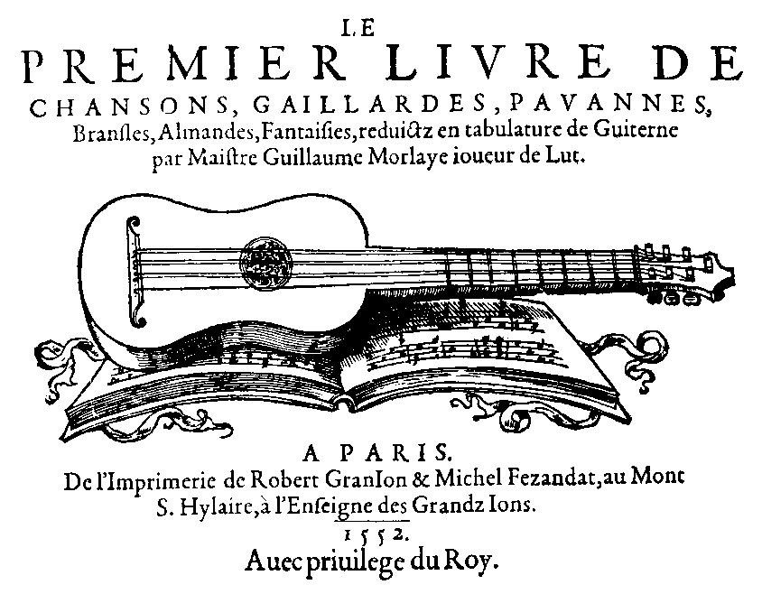 illustration on the Title page of G. Morlaye's Le Premier Livre .. from the year 1552 Author: G. Morlaye year of publication: 1552